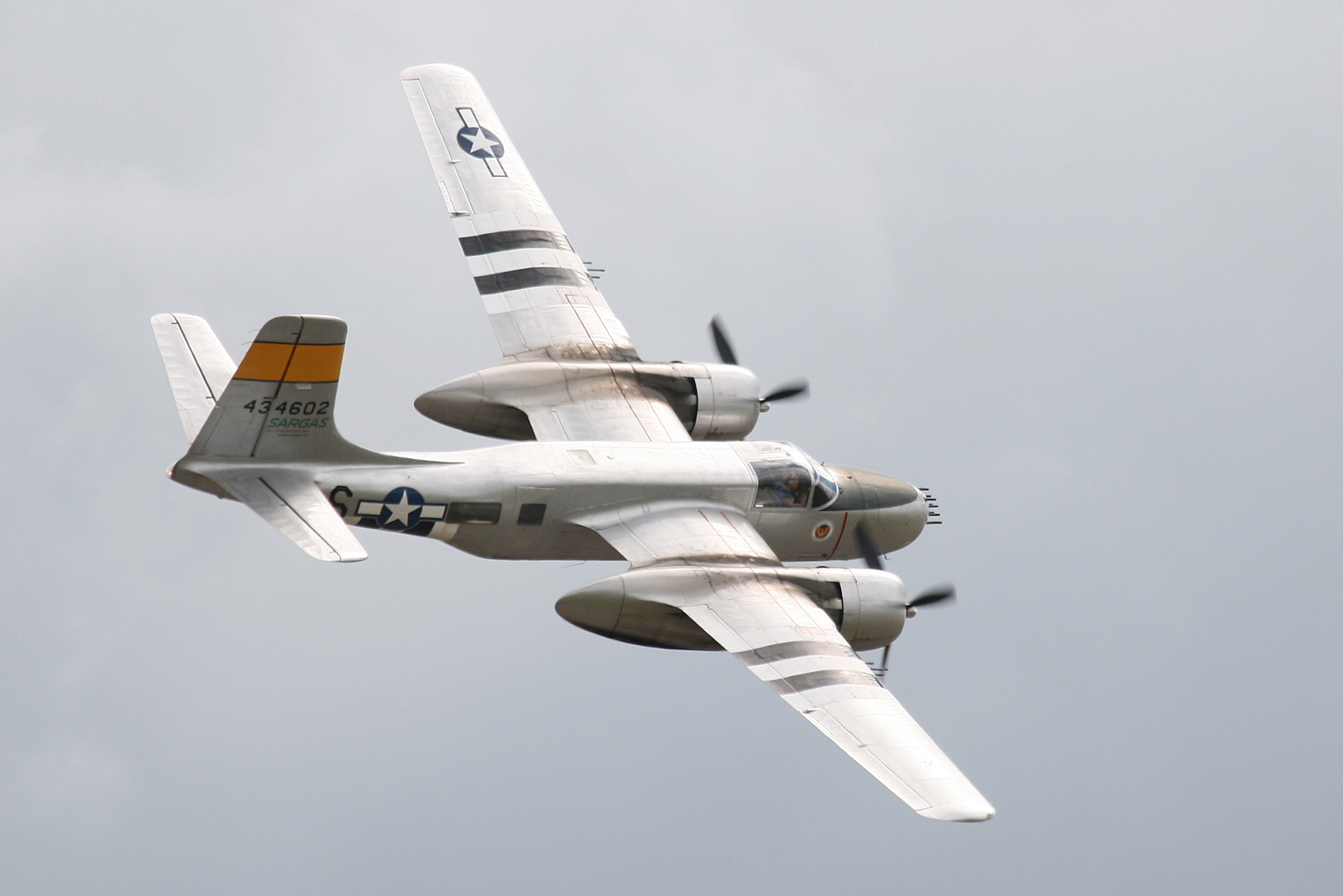 Douglas A-26B Invader at the 2008 'Flying Legends' air show in Duxford, UK.